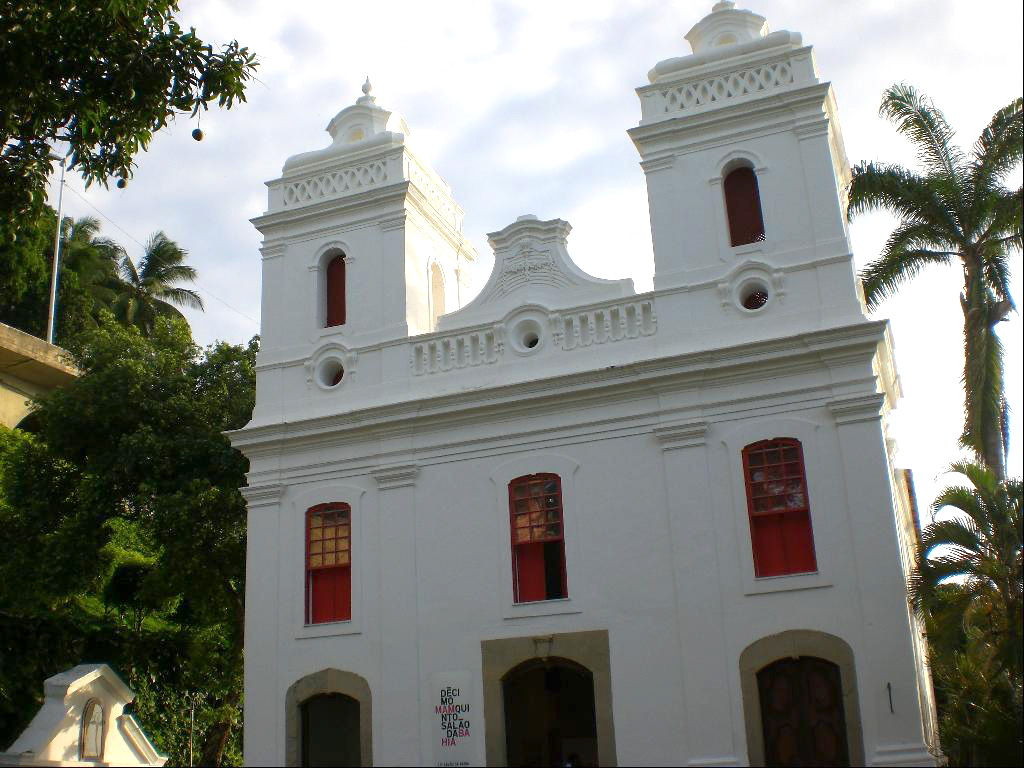 Church of Solar do Unhão (Unhão House) in Salvador, Bahia, Brazil